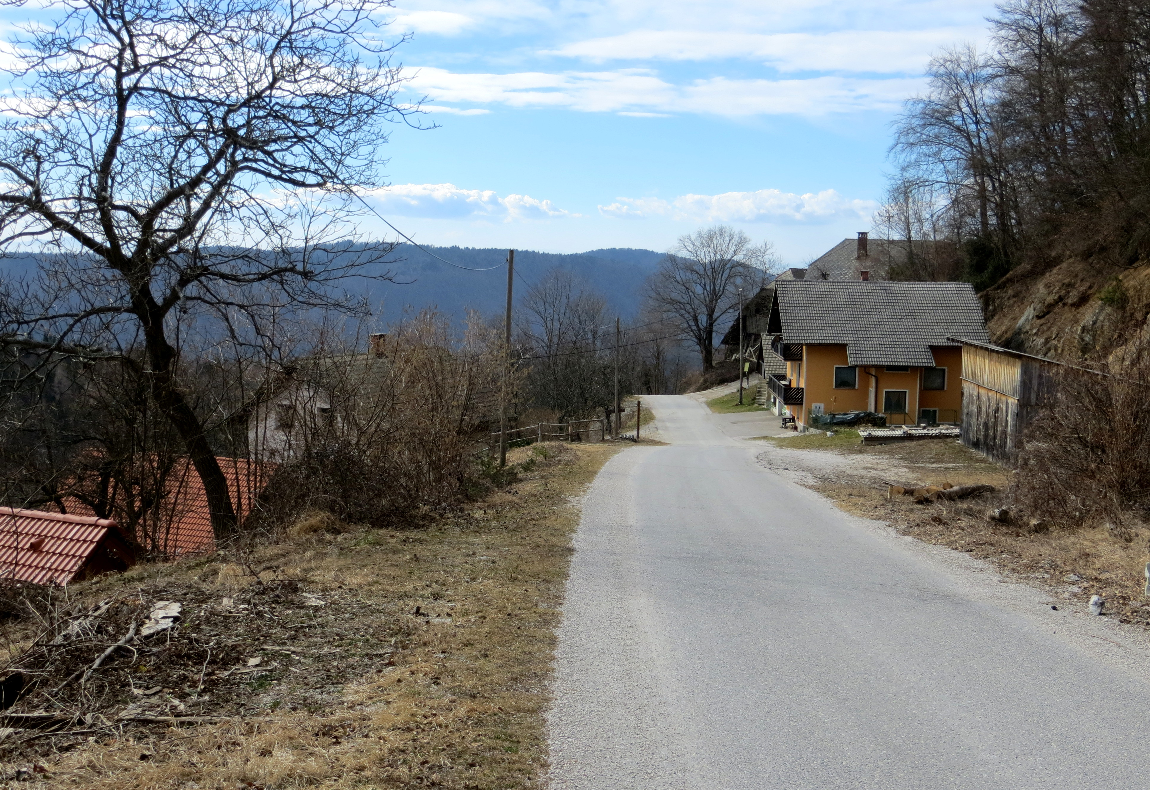 Trobelno, Municipality of Kamnik, Slovenia